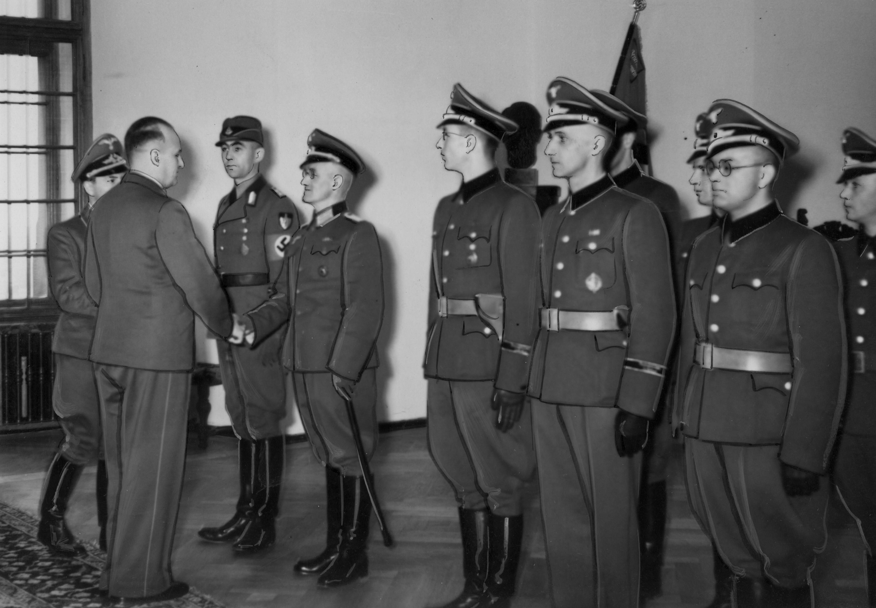 Gauleiter Hans Frank in occupied Krakow greets the leaders of German Sonderdienst in April 1941 at Wawel. Photo is heavily retouched at source, possibly by staff o a photo studio on Nazi orders.